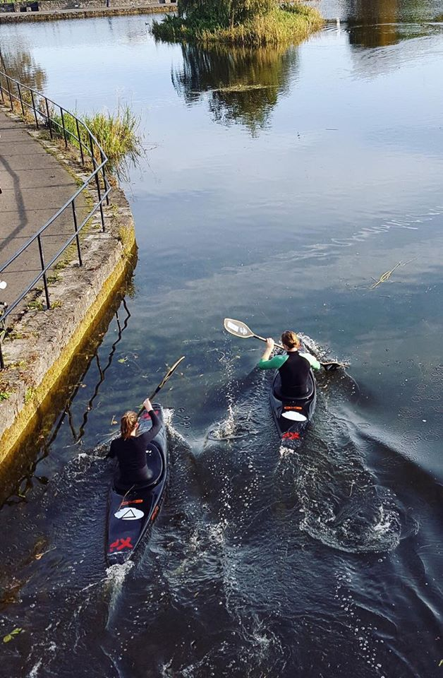 canoe polo players